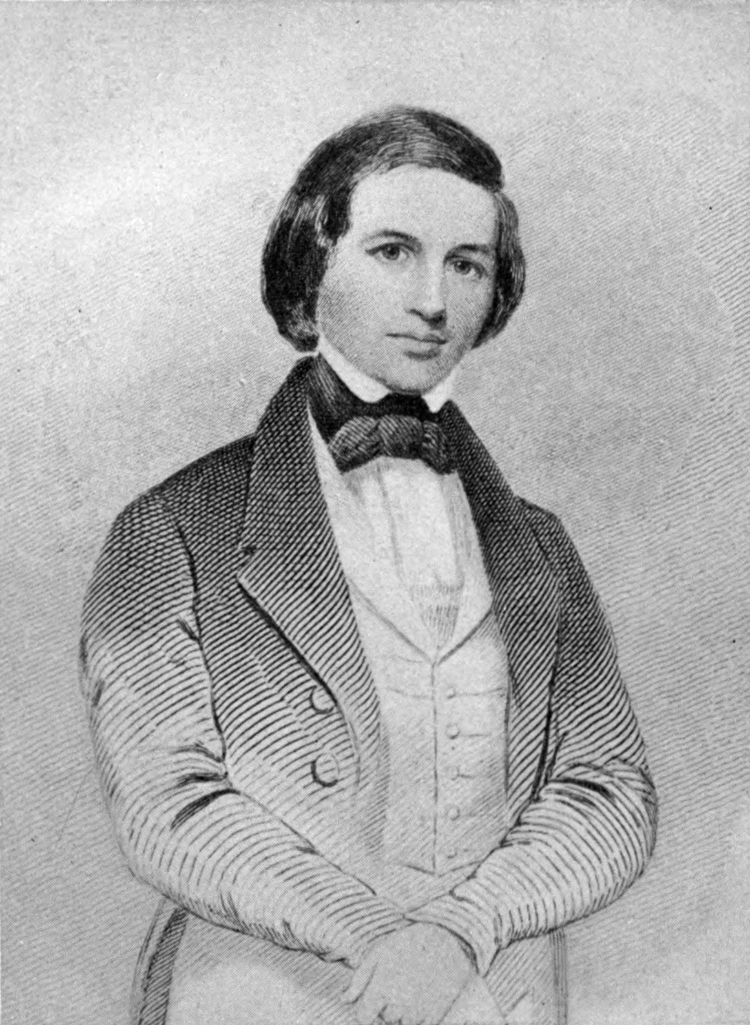 Image of a young Timothy Shay Arthur (1809-1885)